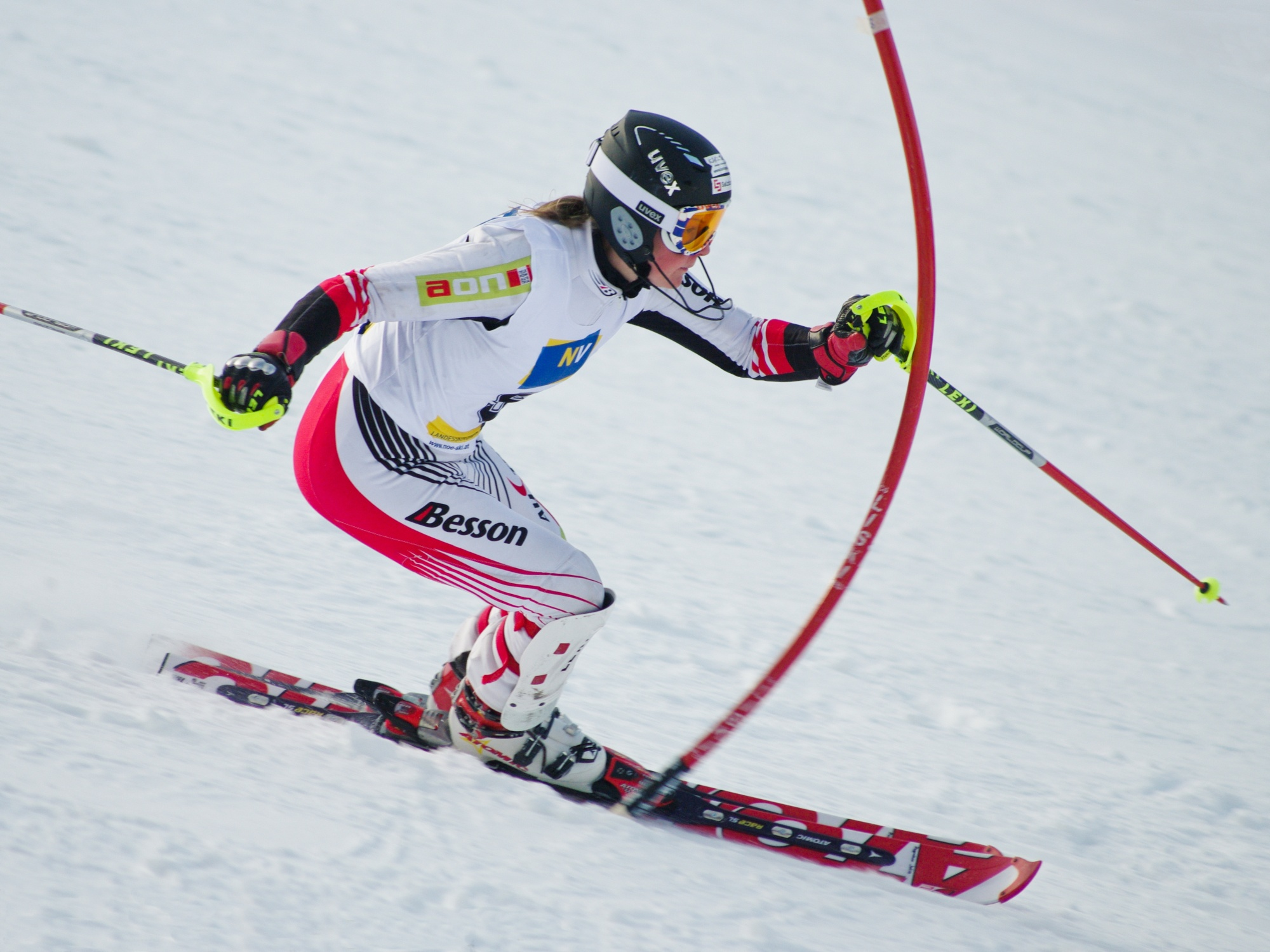 Austrian alpine skier Julia Dygruber in the slalom run of the FIS Super Combined in Lackenhof, Austria, on 3 March 2010.